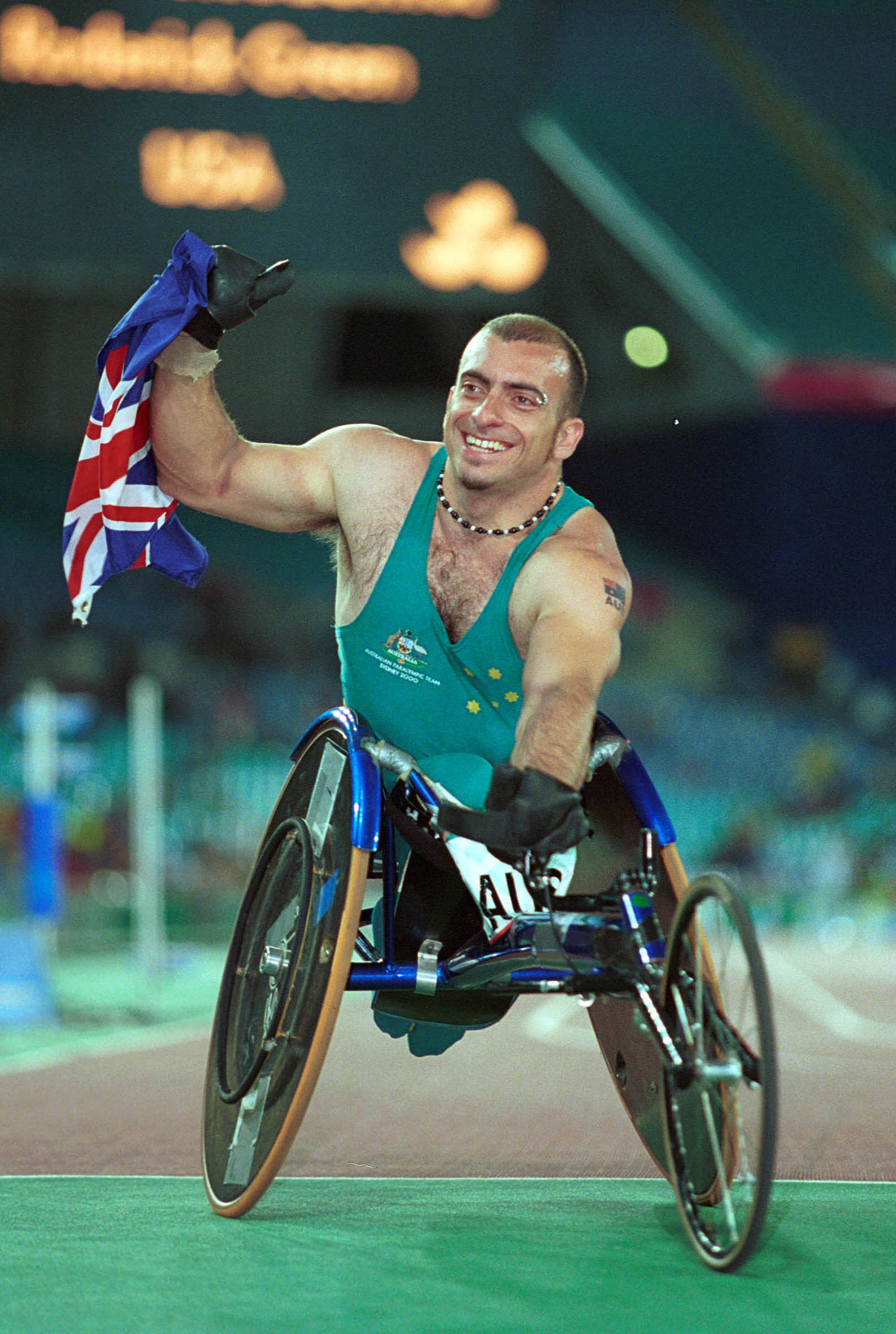 Australian wheelchair racer Paul Nunnari smiling as he holds up the Australian flag at the 2000 Sydney Paralympic Games